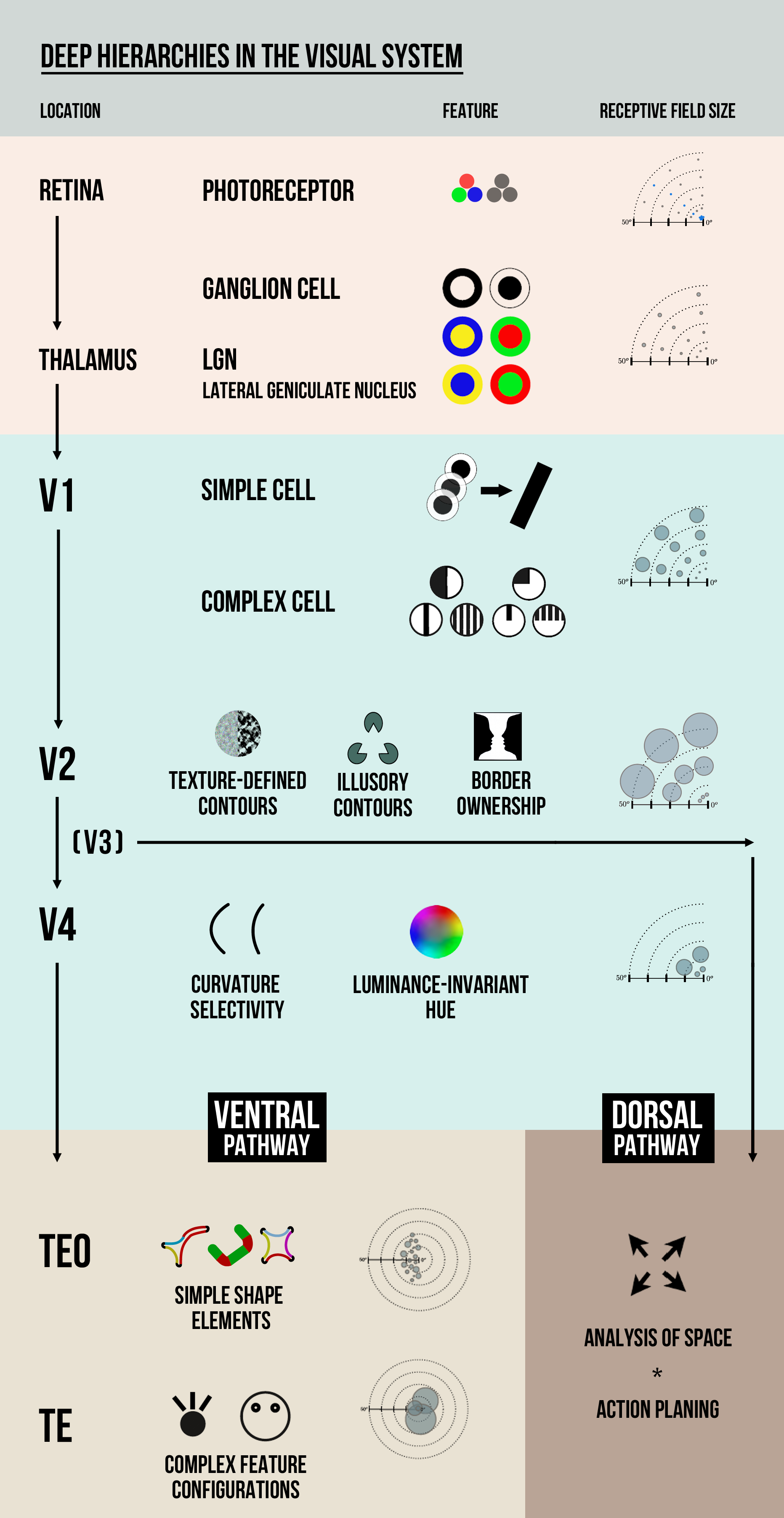 Deep hierarchies in the visual system